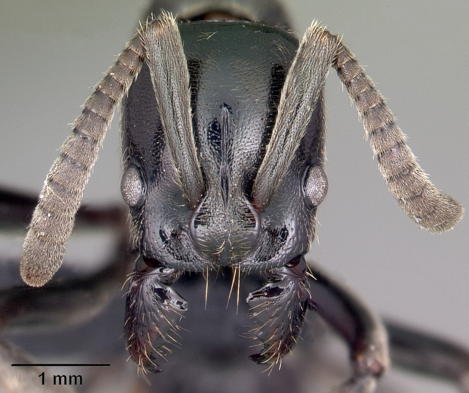 Head view of ant Pachycondyla sikorae specimen casent0497202.